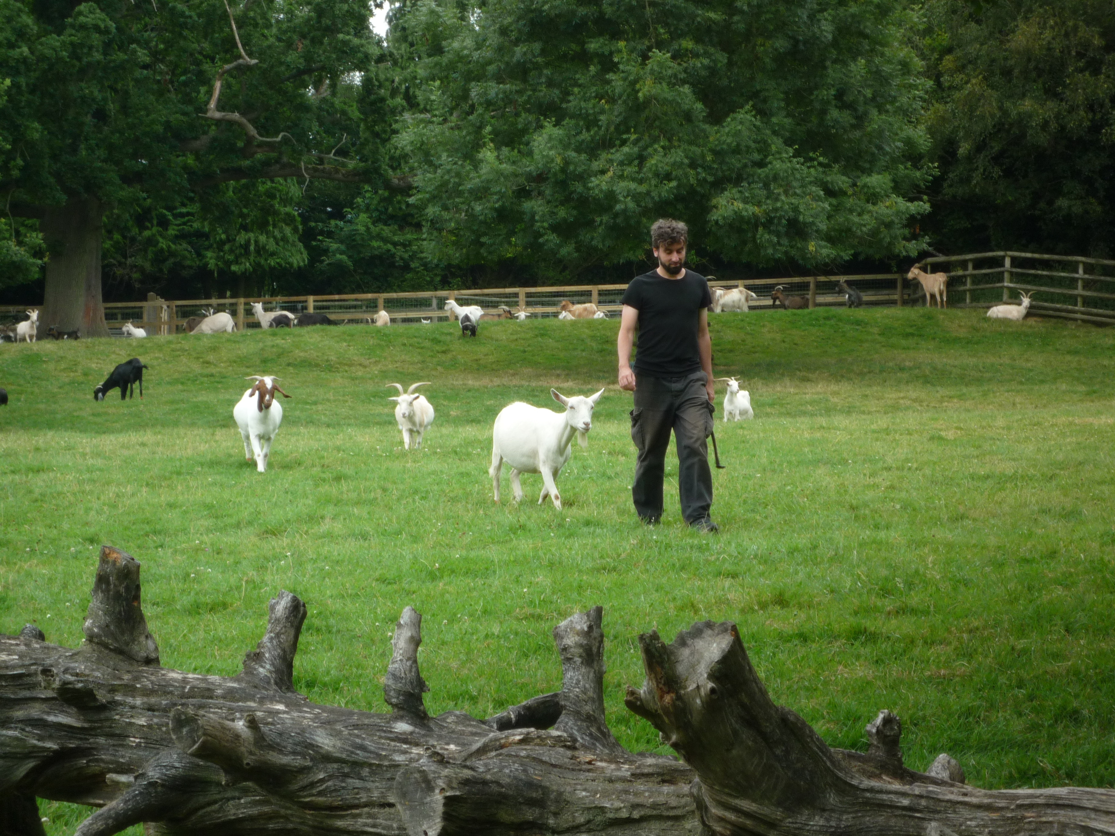 Goats following human at Buttercups Sanctuary for Goats. The foreground shows a tree trunk provided as a goat scratching post.